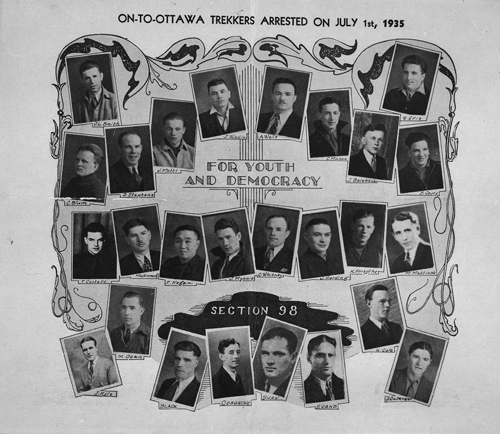 On-to-Ottawa Trekers arrested on July 1st, 1935 "For Youth and Democracy" Section 98 1st row, J. L. Smith; R. Ellis; 2nd row: C. Blum; S. Stephens; J. Motti; J. Wedin; Arthur Wells; C. Mason; J. Boleback; S. Coury 3rd row: Tony Costello; MacKinnon; Fred Nogami; J. Mynnie; C. Whitney; J. Harding; K. Forsythe; Mike Mattiesh; 4th row: J. Kyle; M. Dean; George Black; John Cosgrove; Matt Shaw; Arthur Evans; K. Cole; J. Caltenger. The Montreal Gazette, May 8, 1936, notes that Fred Nogami, born in Port Haney, B.C., was sentenced to 10 months in prison for rioting and for the assault of Constable G. S. Craig of the RCMP. Sentences were stayed for Mike Maties (Dana, Sask.); Mike Zaharuk (Saskatoon); Tony Costello (Nelson, B.C.), Arthur Wells (Biggar, Sask); James Harding (Calgary); and J. L. Smith (Vancouver, B.C.).[1]